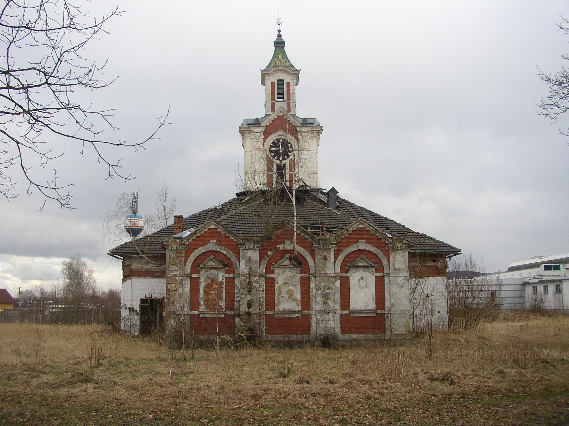 The building used to be a slaughterhouse in Varnsdorf, Czech republic